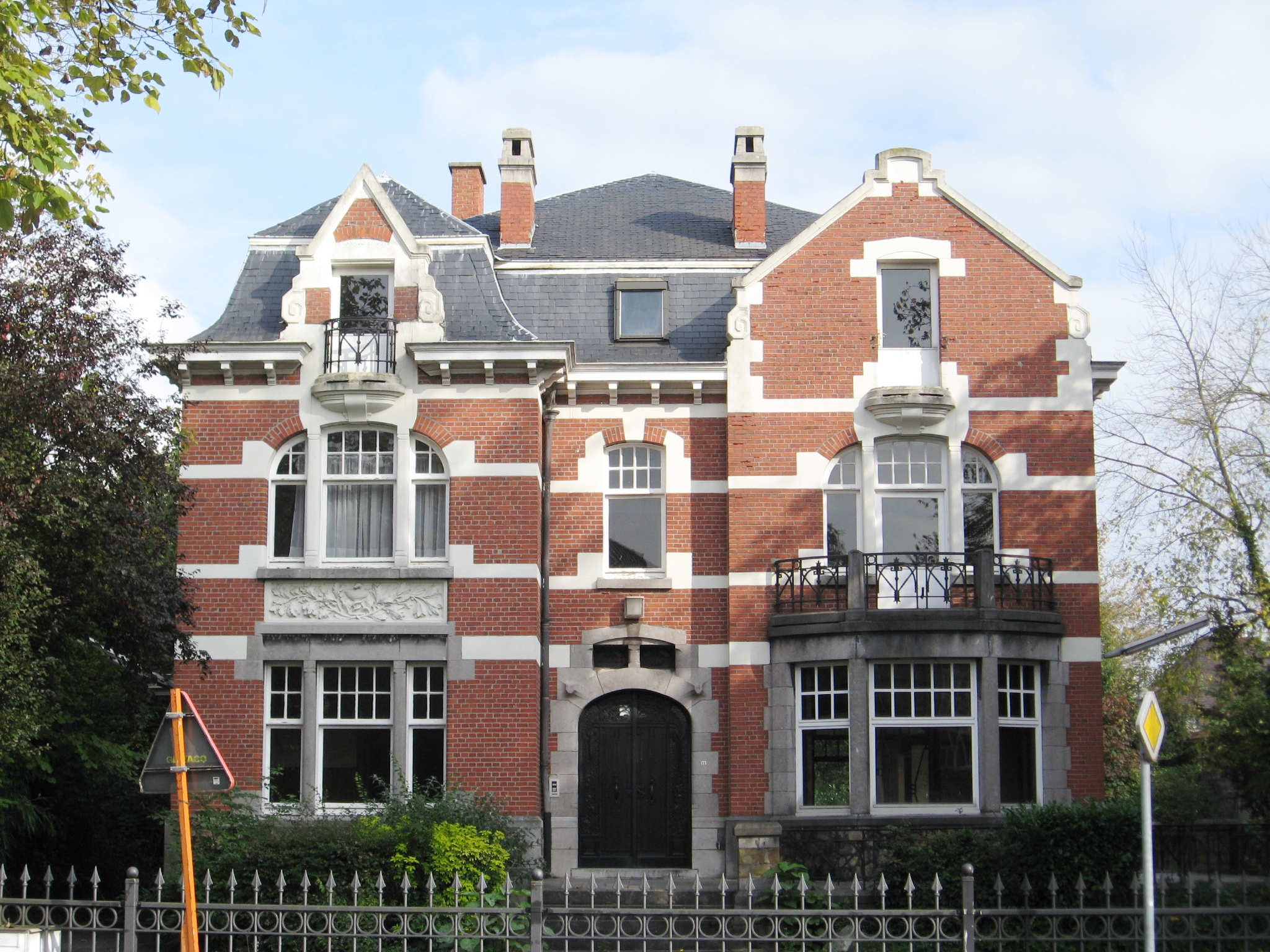 Former arrondissement house of Hasselt, Limburg, Belgium